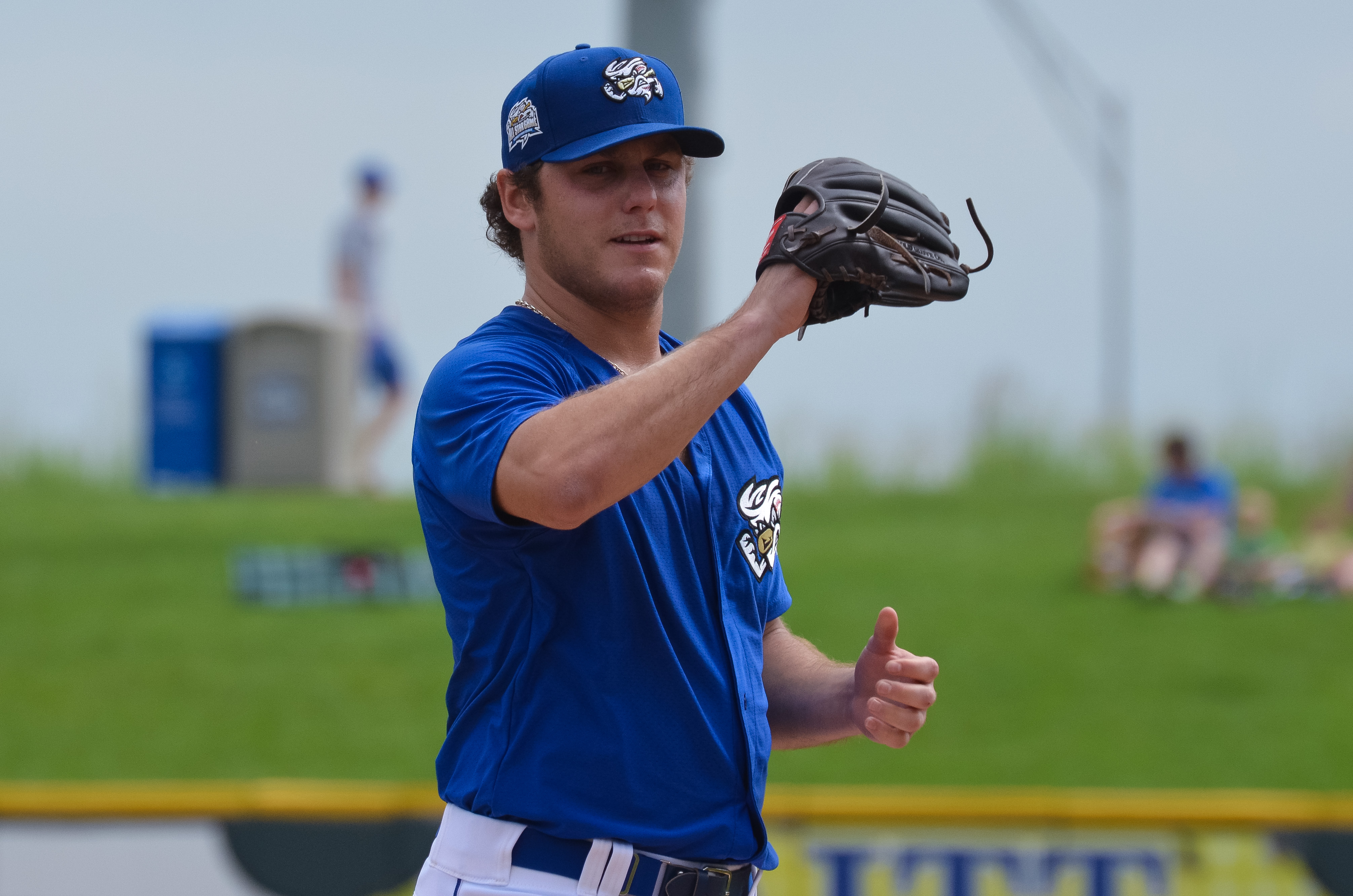 Minda Haas Kuhlmann | 2015 USAGE INSTRUCTIONS: You are welcome to share or publish to your own site or social media account, but you MUST credit me, Minda Haas, or by my Twitter handle (@minda33) or Instagram (minda.haas).